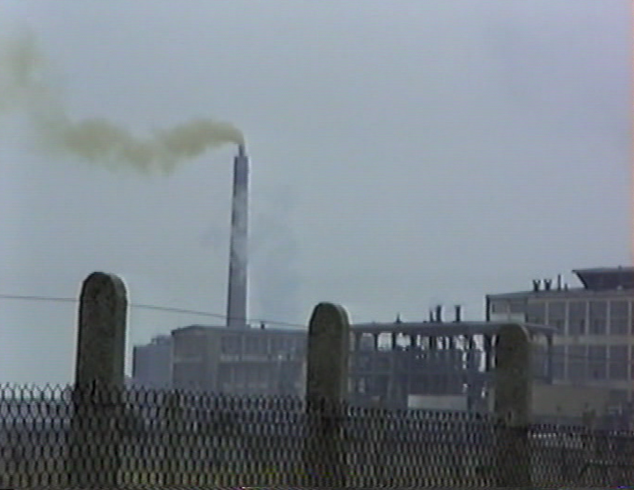 Smoke of unknown composition comes out of a chimney in Bitterfeld, then German Democratic Republic, in 1988